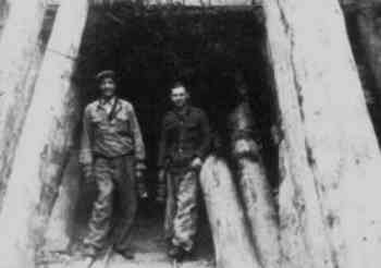 Polish miners Mr. Gacek and Mr. Cechini during construction of the fatal tunnel along the Poprad River Gorge, Poland under Austrian partition, 1874